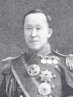 Min Young Hwi(민영휘)'s photo